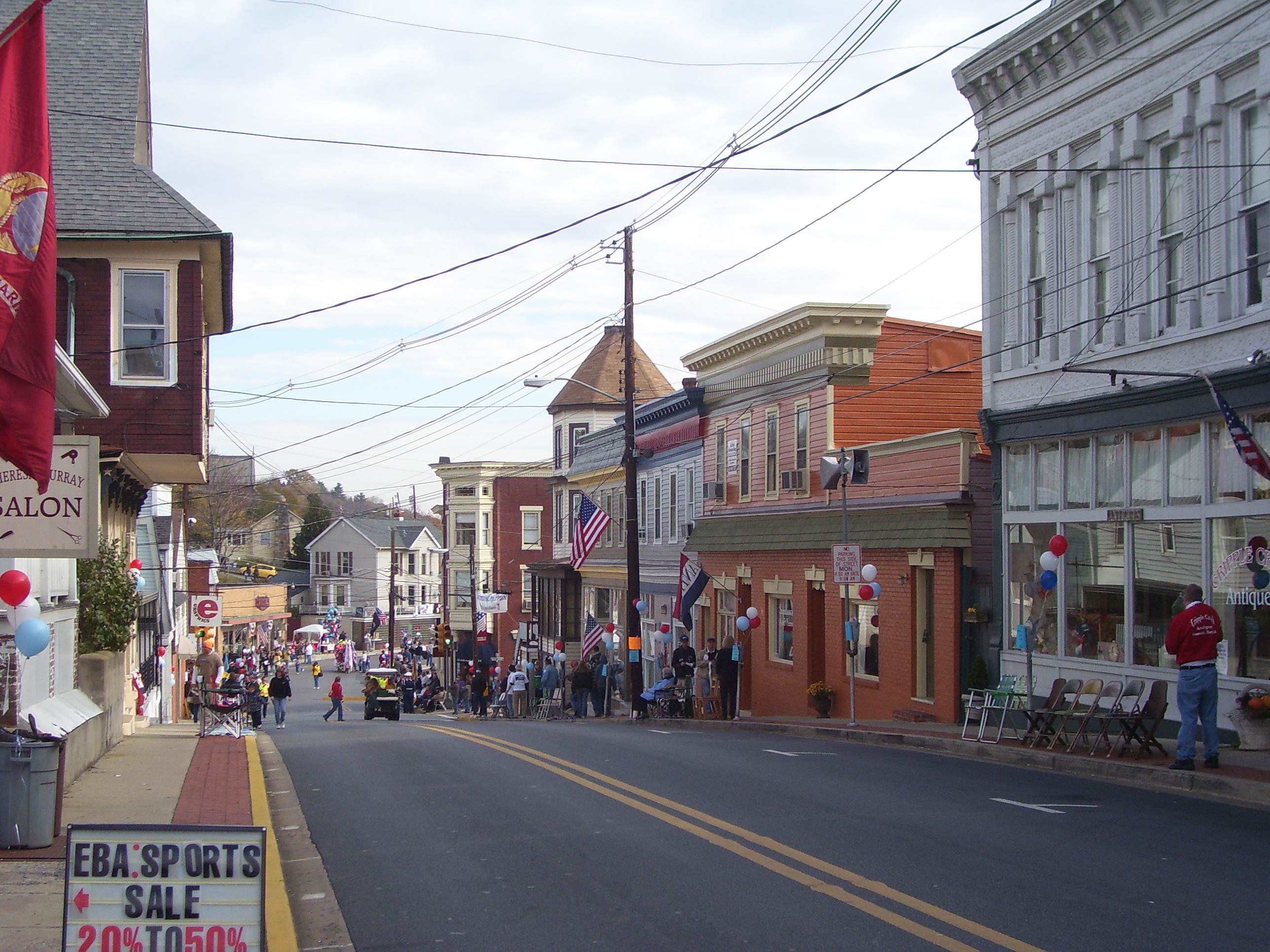 The historic downtown business district along Potomac Street in Brunswick, Maryland.